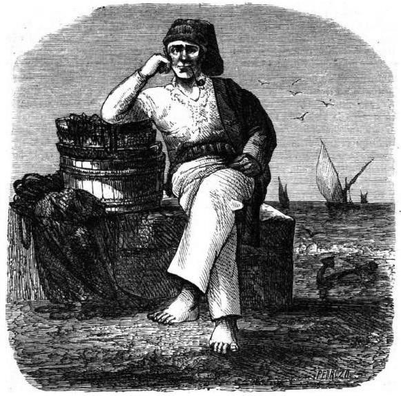 Fishermen from Póvoa de Varzim in mid-1800s. Picture from the 1868 book series "Archivo Pittoresco"